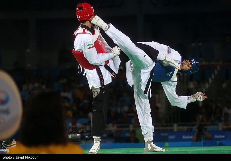 Taekwondo at the 2016 Summer Olympics – Men's 80 kg